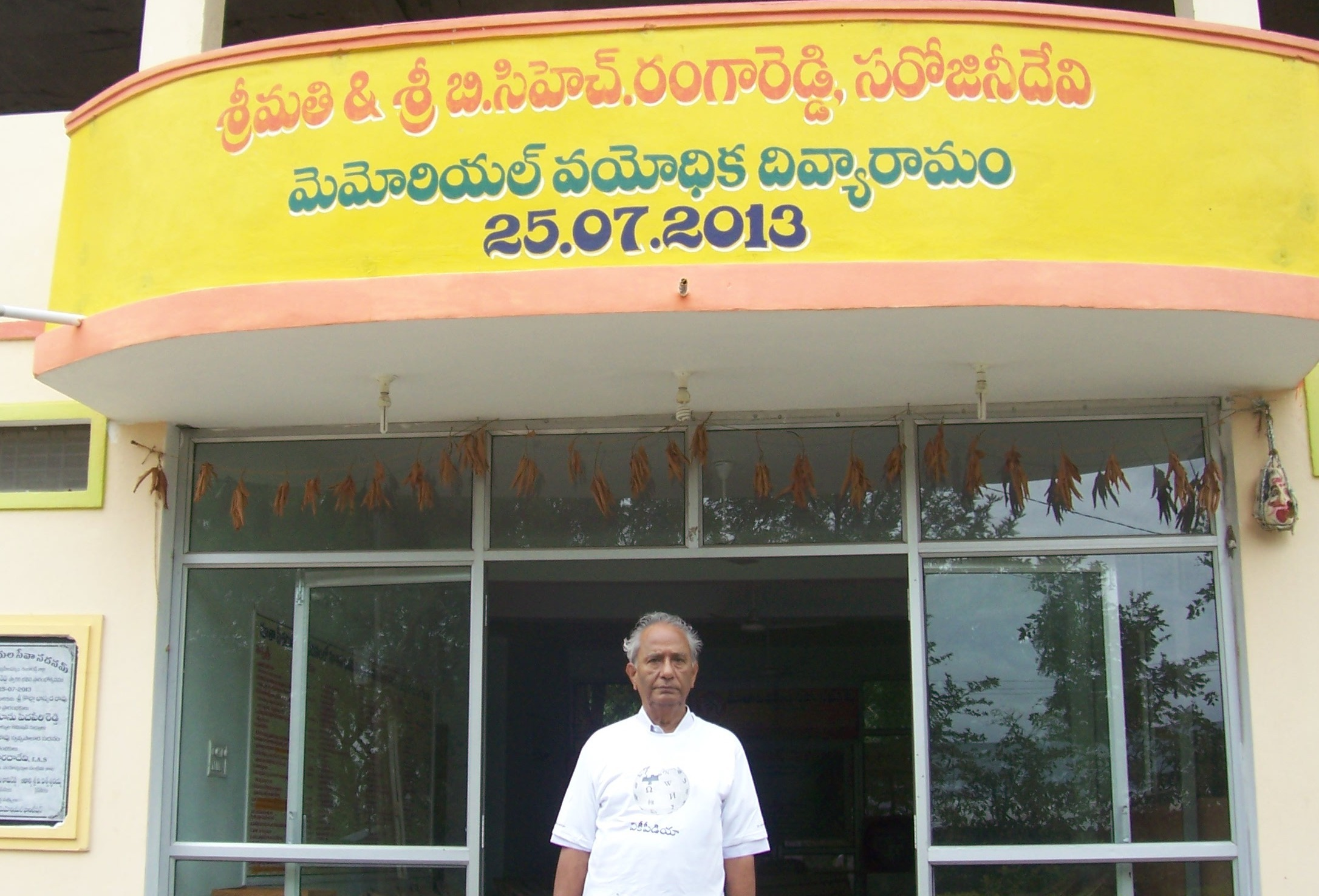 Home for aged, at Ibrahim patna